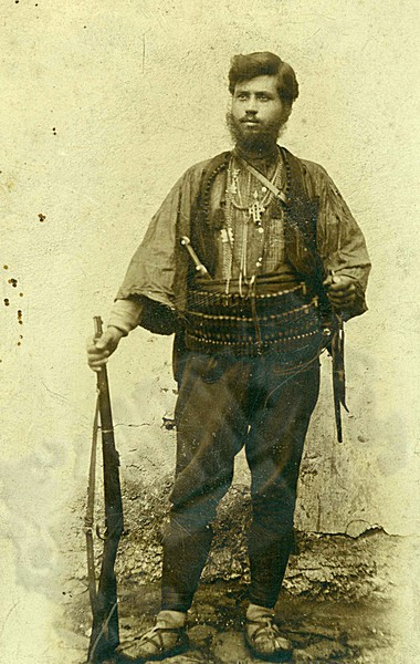 Lazar Poptomov